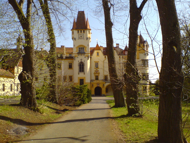 Žinkovy Chateau, Plzeň-South District, Czech Republic. A view from the north.